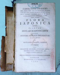 "Flora Japonica" written by Carl Peter Thunberg.